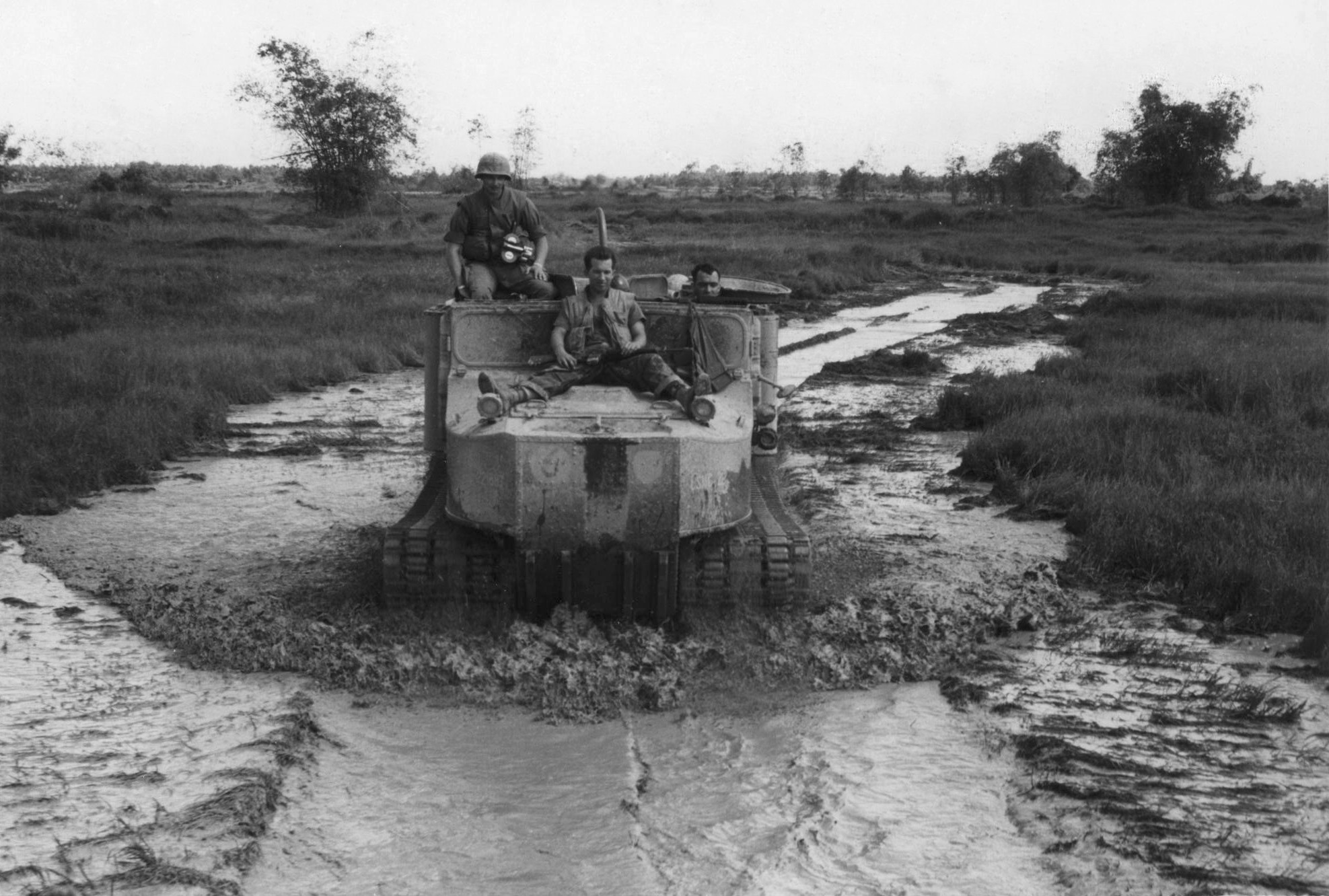 "Otter Resupply: Leathernecks participating in Operation Meade River, southwest of Da Nang, were resupplied by Marine helicopters or Otters, tracked vehicles which take easily to the swampy terrain." From the Jonathan F. Abel Collection (COLL/3611), Marine Corps Archives & Special Collections OFFICIAL USMC PHOTOGRAPH